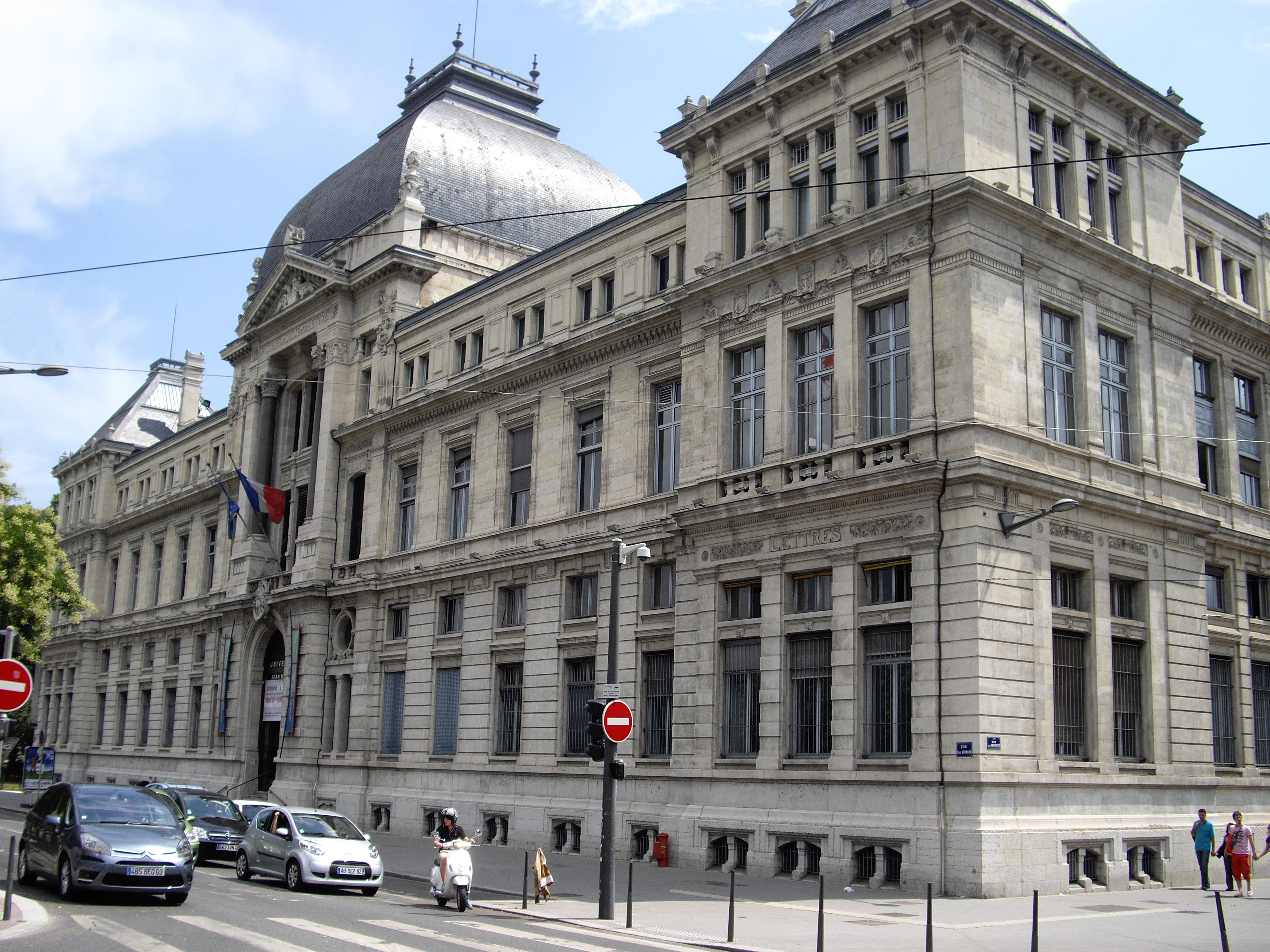 The main building of the University Lyon III (Jean Moulin University) on the Rhone embankment (Lyon, France)